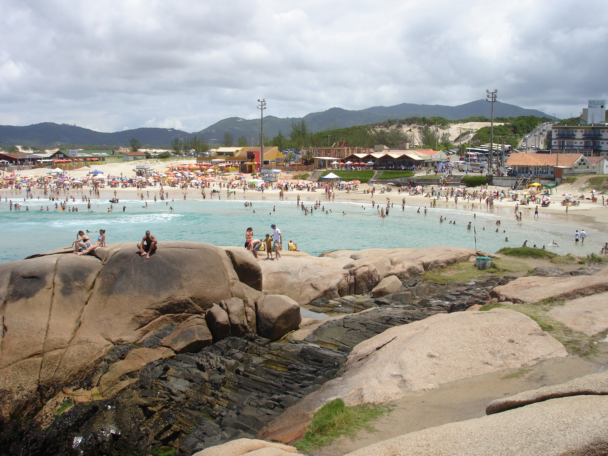 Florianópolis city, Santa Catarina state, Brazil. Joaquina Beach, by Herbert Vieira, january 2006